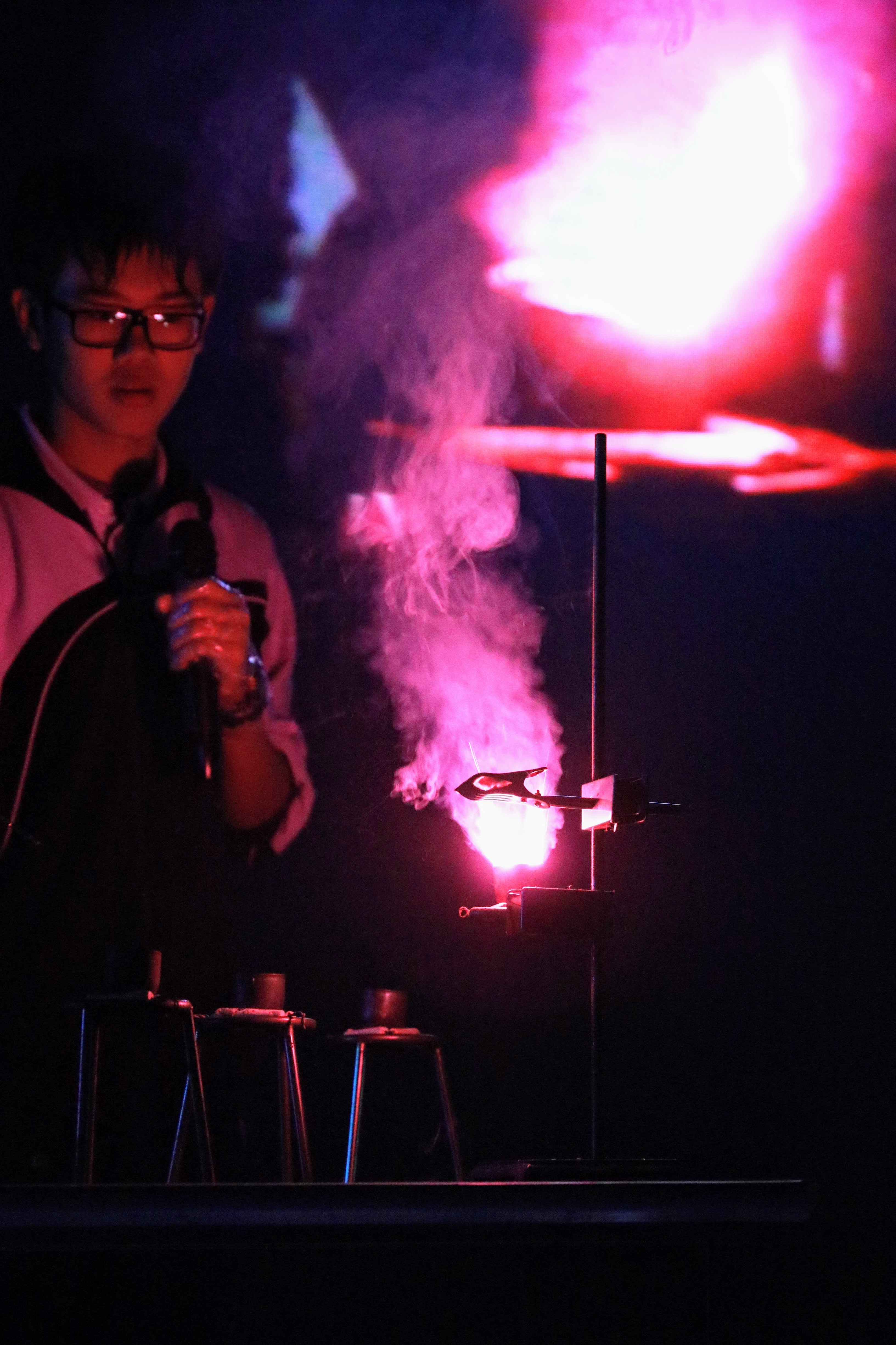 A Student Conducting the Chemical Experiment using Crucible (May Flame test)